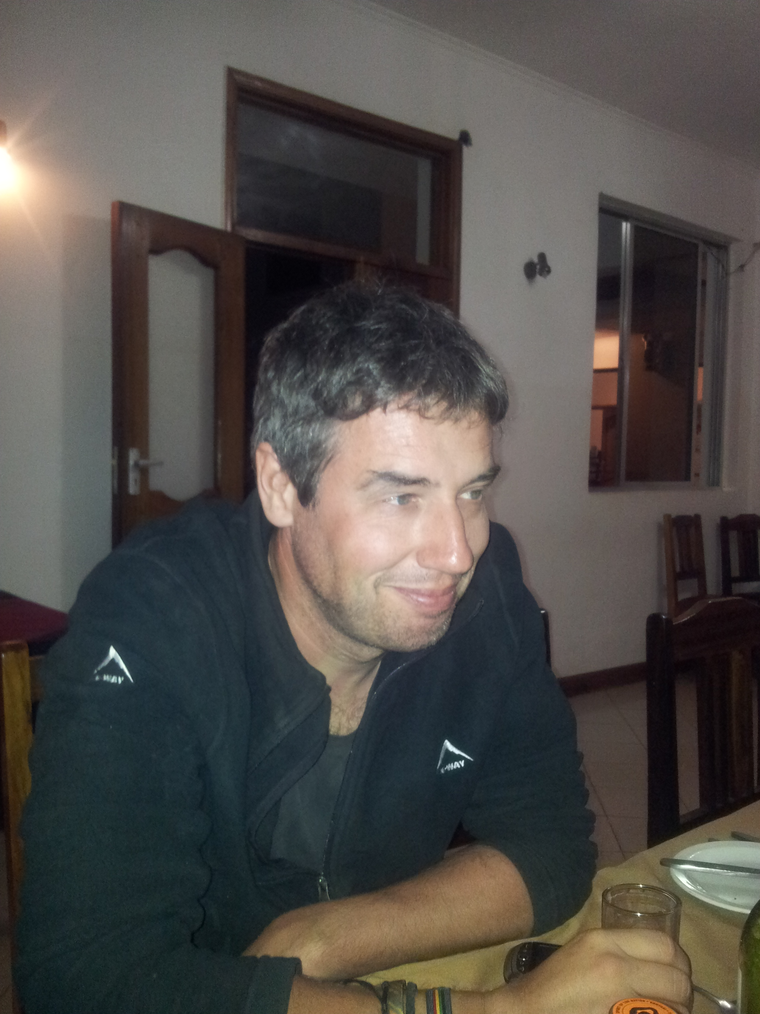 Arjen Westra